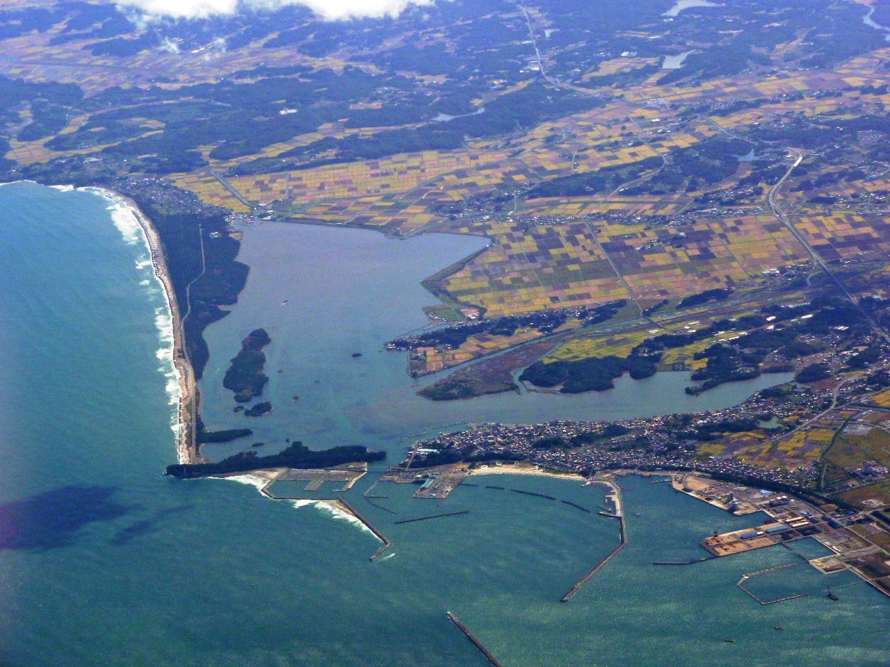 Aerial photo of Matsukawaura lagoon in Soma City, Fukushima Prefecture, Japan